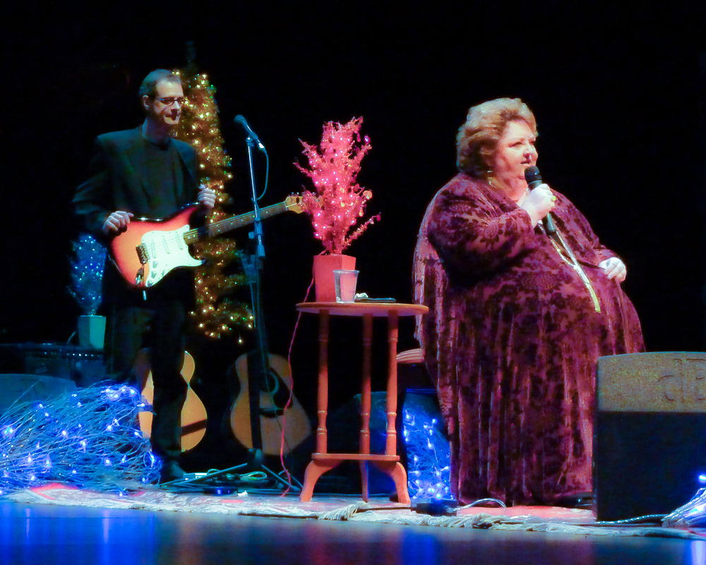 Rita MacNeil during a Christmas concert, December 12, 2009 at the National Arts Centre in Ottawa, Ontario. Photo by Kim Letkeman. Other information Very few free images are currently available, and unlikely more will become available in the future, due to MacNeil's 2013 death.